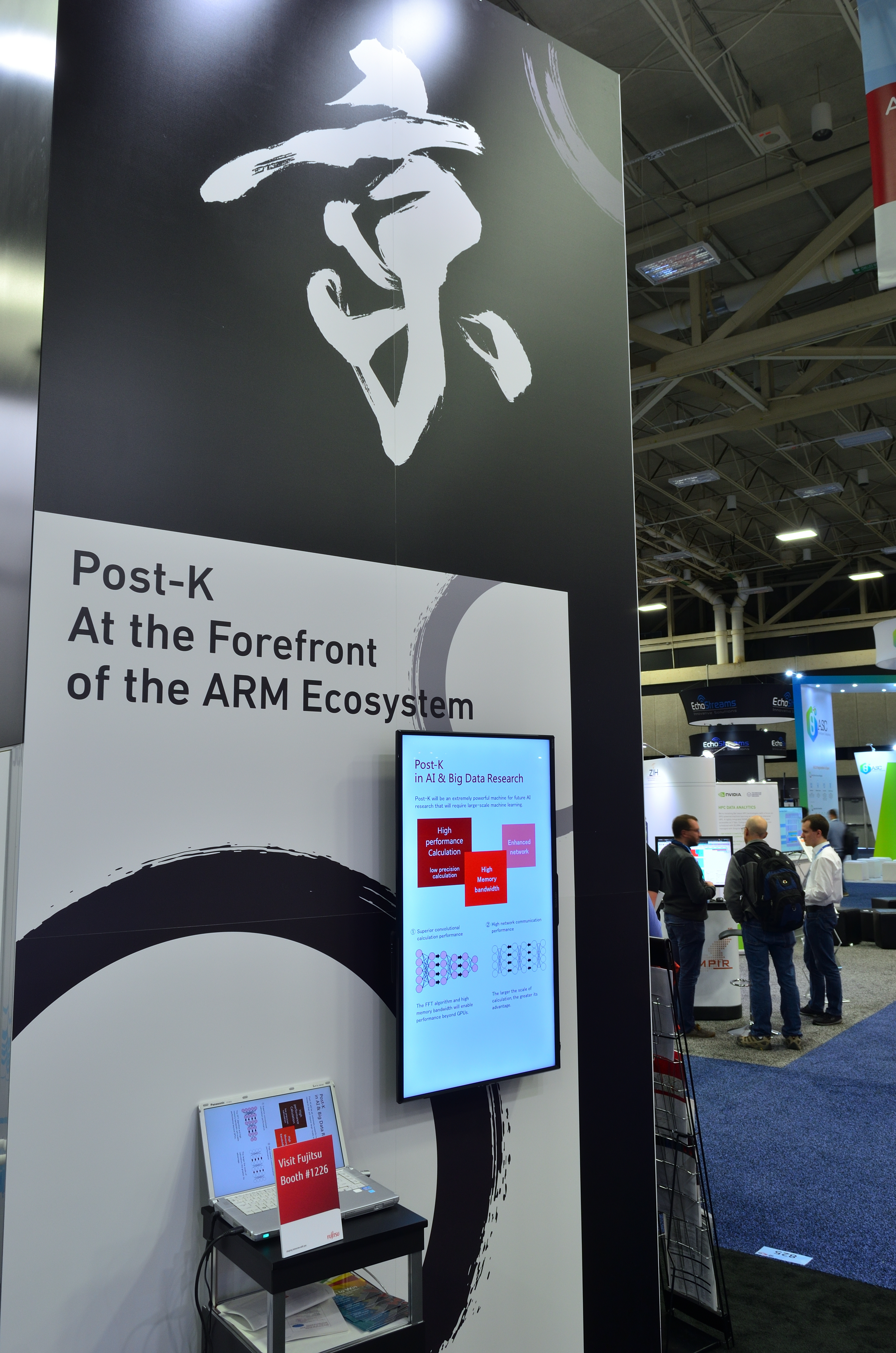 Fugaku supercomputer demo booth at SC18